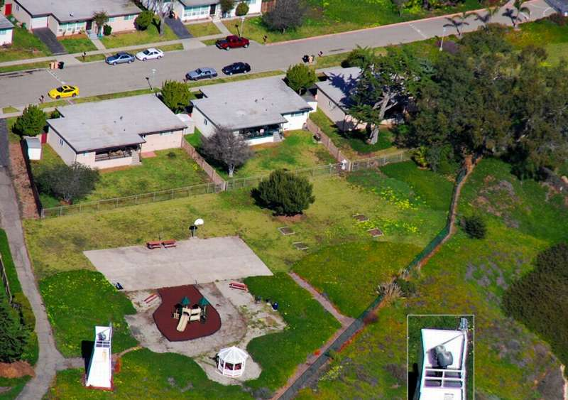 Aerial photo: Santa Barbara Lighthouse in Santa Barbara, California. Coast Guard residences and playground, with entrance gate visible at the upper right corner and an inset closeup of the light pyramid in the lower right.